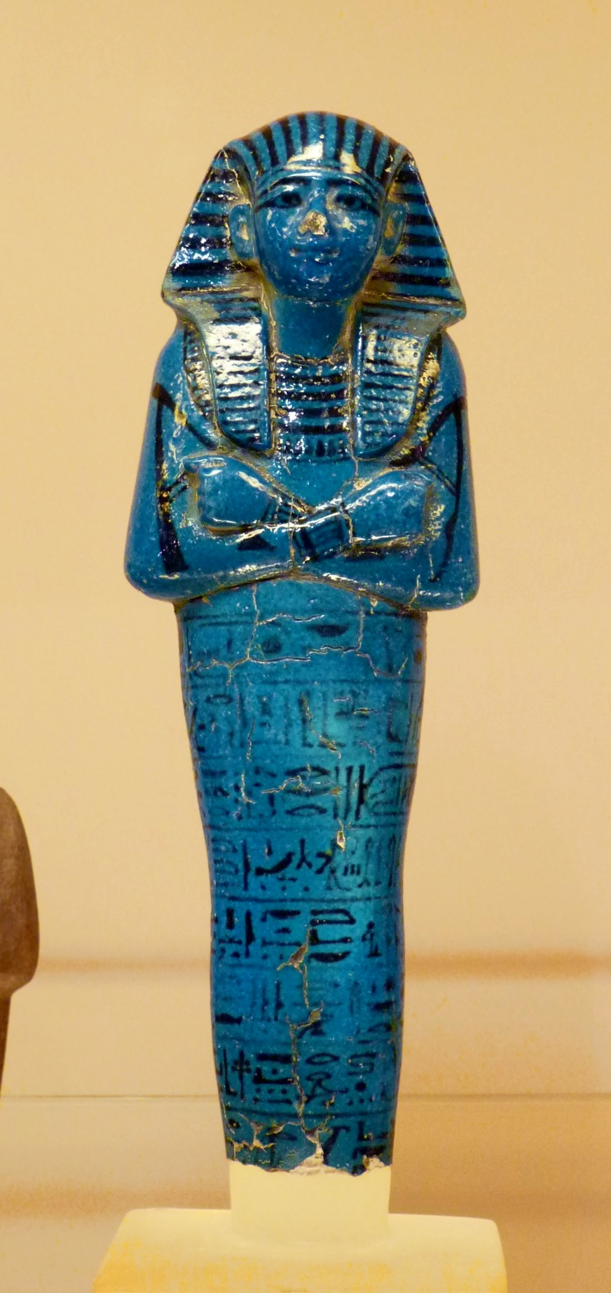 Fine ushabti of pharaoh Seti I. Blue faience (H. 26 cm), from Thebes, Reign of Seti I, 19th dynasty, New Kingdom. Archeological Museum of Bologna (Italy), Palagi coll. KS 2056.